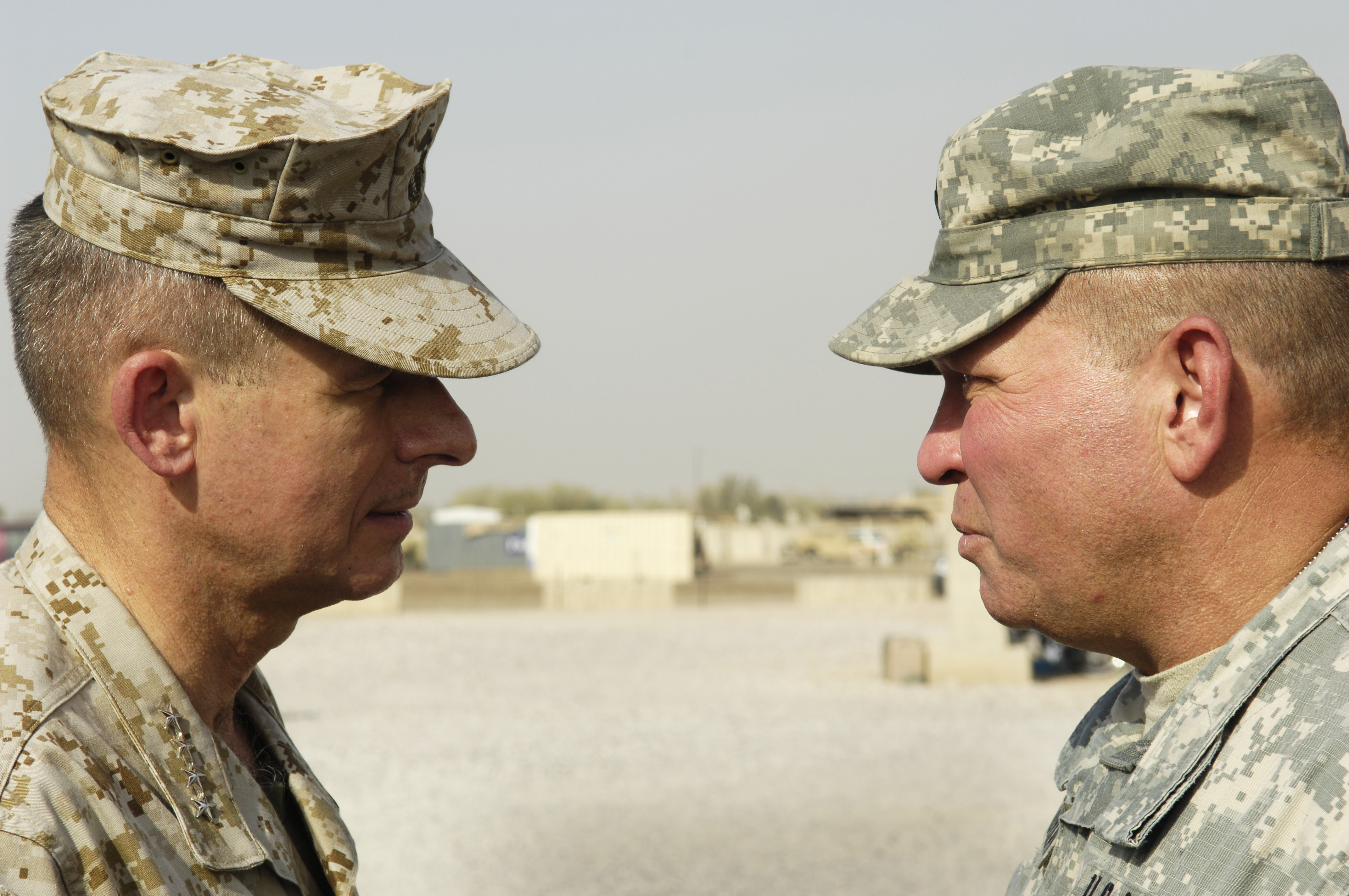 U.S. Army Maj. Gen. James Thurman, the commander of Multinational Division Baghdad, speaks with Chairman of the Joint Chiefs of Staff Marine Gen. Peter Pace.